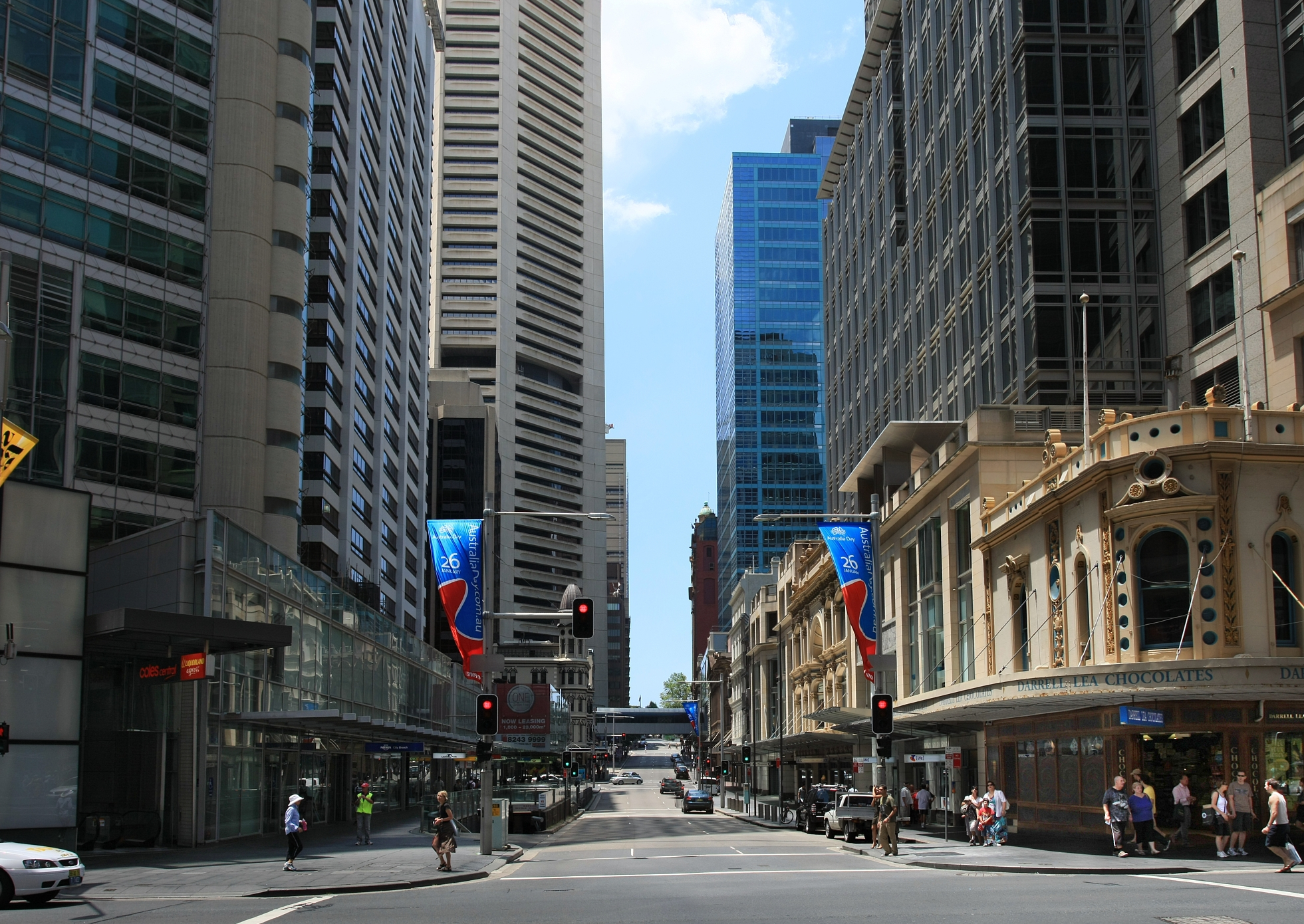 King Street from the corner of George Street Sydney